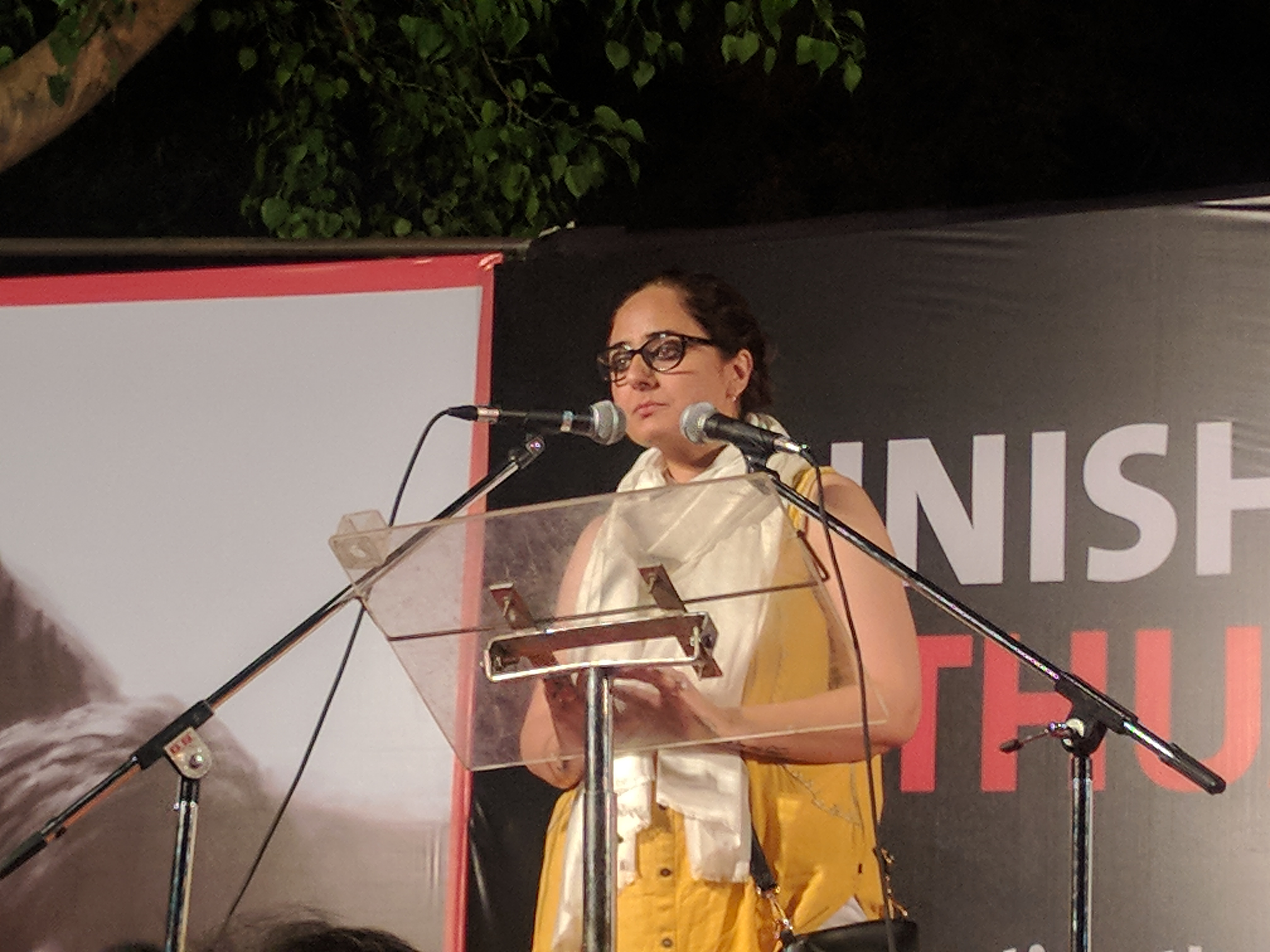 Deepika Singh Rajawat speaking at Parliament Road, New Delhi, during a protest for the Kathua rape case and Unnao rape cases one day before she goes to trial.